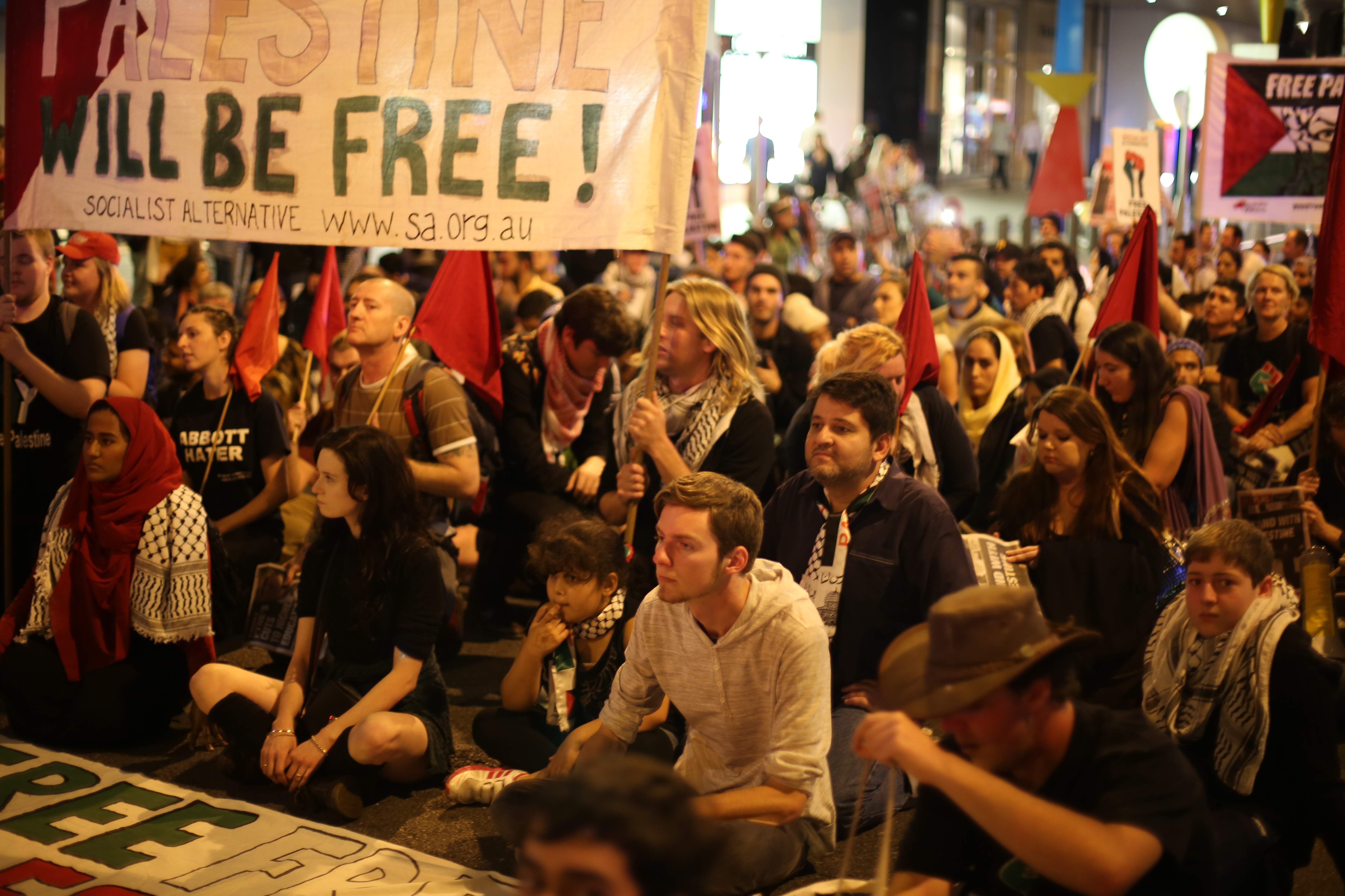 Hundreds of people protest in Brisbane Friday 1 August 2014 concerned for the people of Gaza.